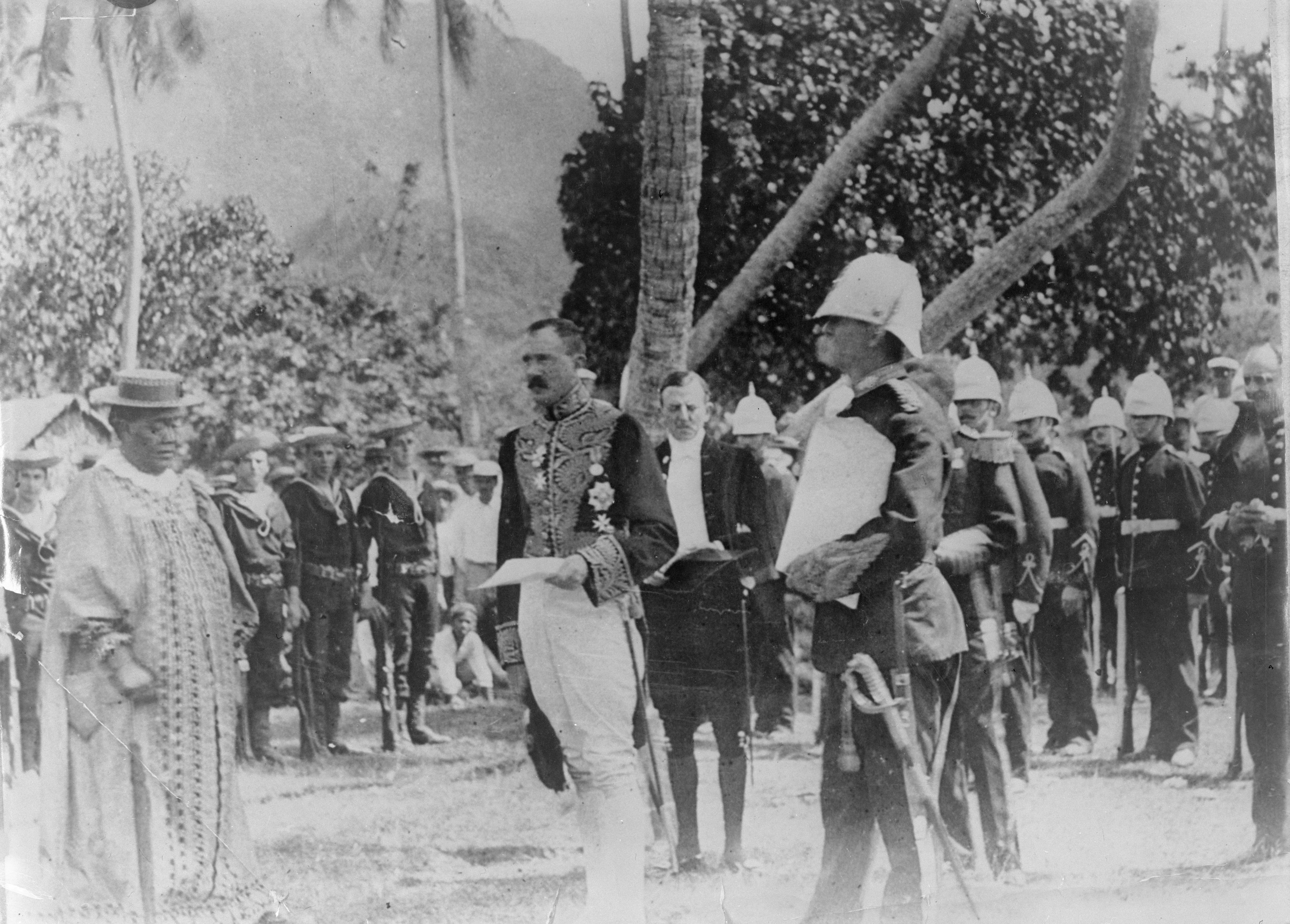 A copy of a photograph of Governor-General Lord Ranfurly reading the annexation proclamation to Queen Makea, with the British Resident Walter Gudgeon looking on, at the ceremony 7th October 1900. In the background are British Bluejackets and marines.